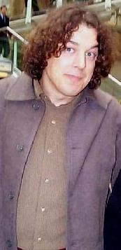 Alan Davies. Cropped from original.